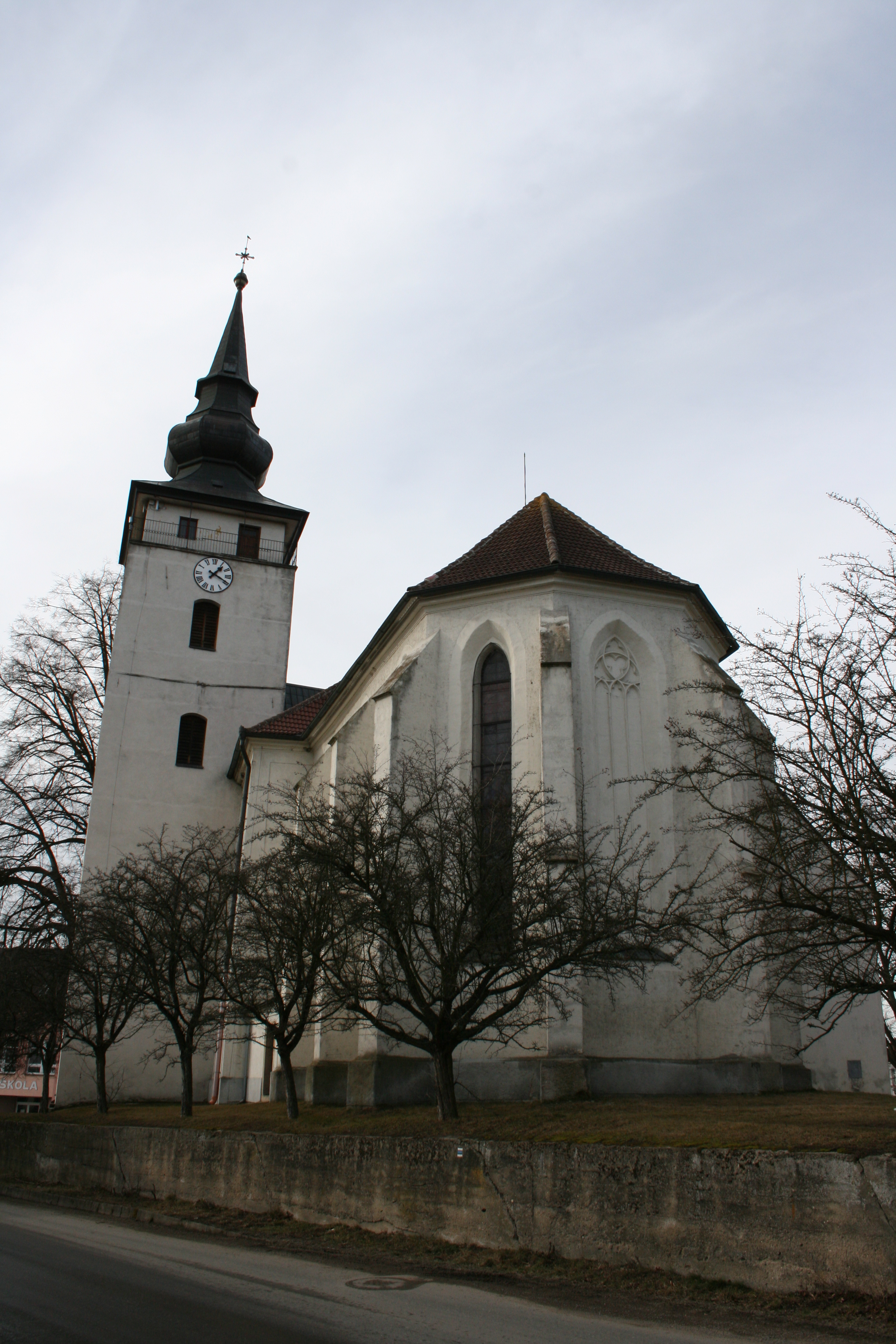 Early gothic church in Kardašova Řečice, Jindřichův Hradec district, Czech Republic.